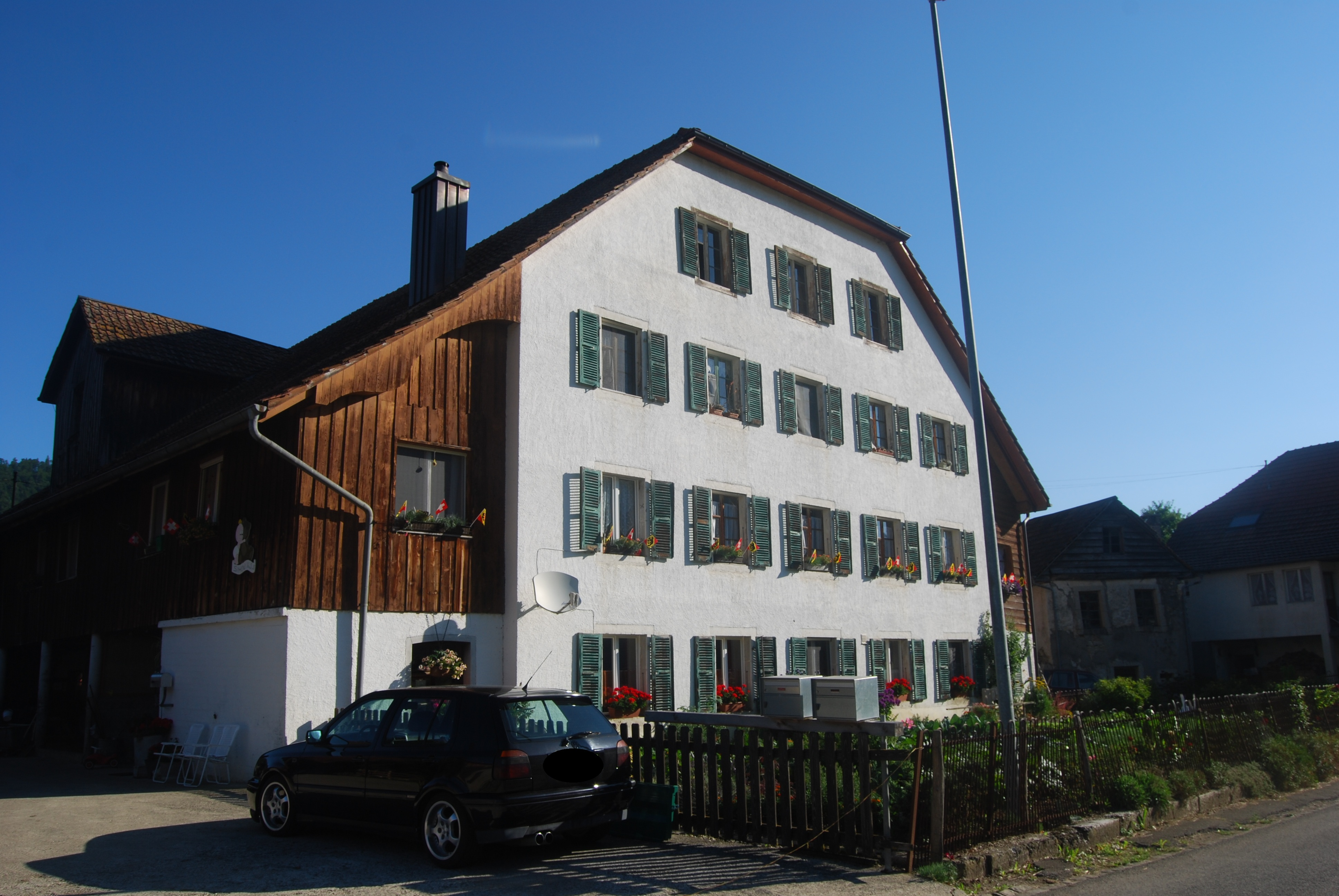 Châtelat, canton of Bern, Switzerland